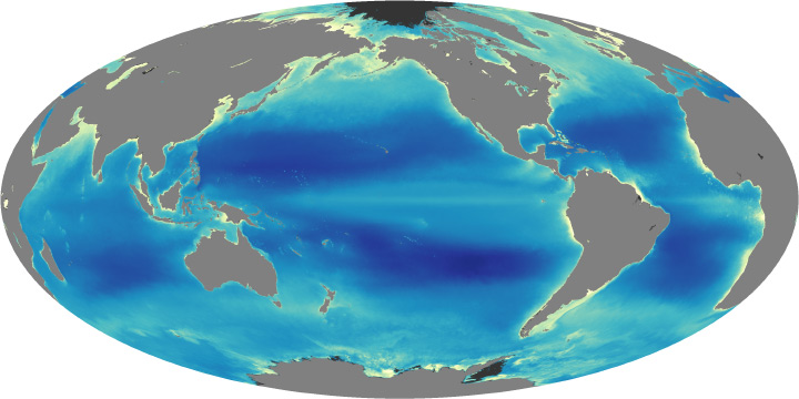 Global ocean chlorophyll concentration. This map shows the average chlorophyll concentration in the ocean from July 2002–May 2010. Phytoplankton are most abundant (yellow, high chlorophyll) in high latitudes and in upwelling zones along the equator and near coastlines. They are scarce in remote oceans (dark blue), where nutrient levels are low. NASA image by Jesse Allen & Robert Simmon, based on MODIS data from the GSFC Ocean Color team.